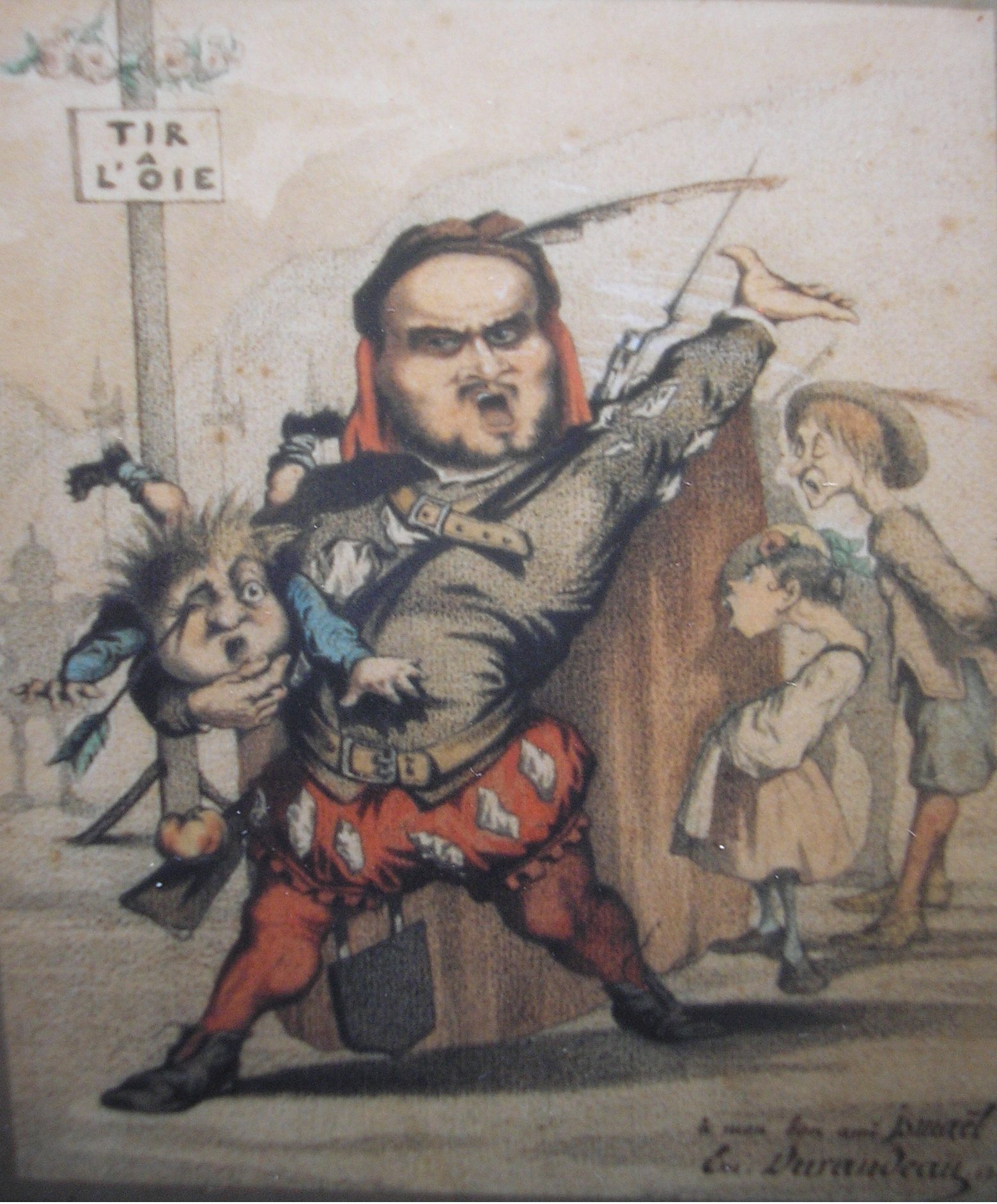 Caricature d'Ismaël par le peintre Emile Durandeau